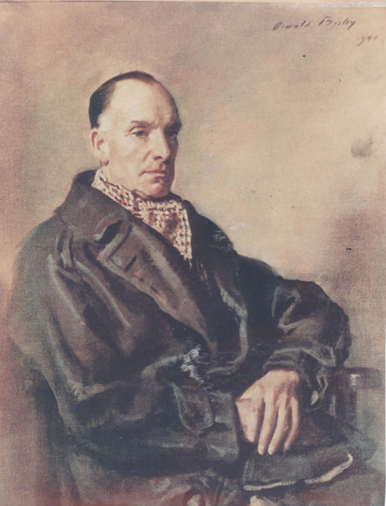 Catalog #: BIOD00100 Last Name: De Havilland First Name: Geoffry Sir Notes: Repository: San Diego Air and Space Museum Archive